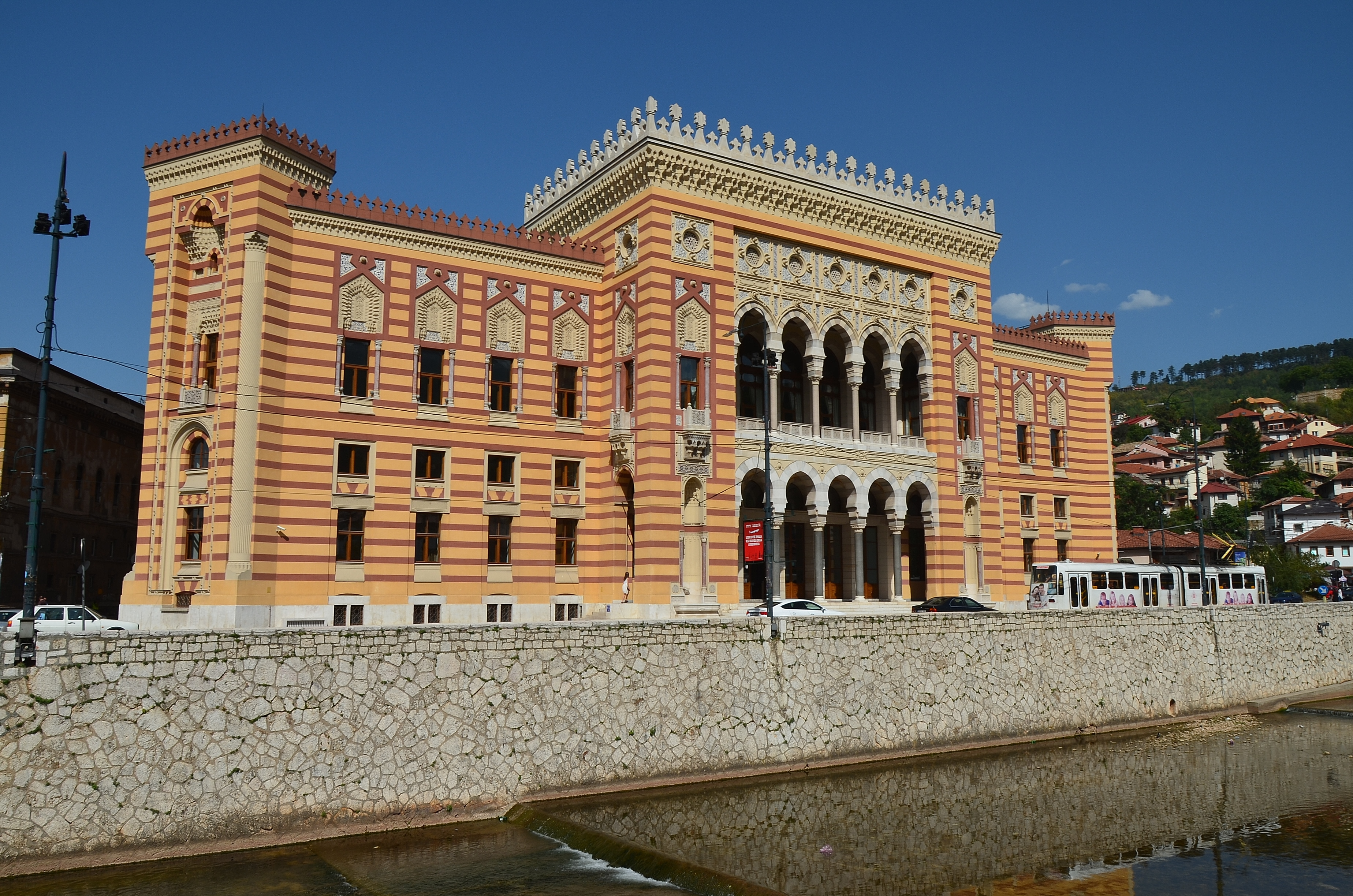 Vijećnica (Town Hall) in Sarajevo, Bosnia and Herzegovina